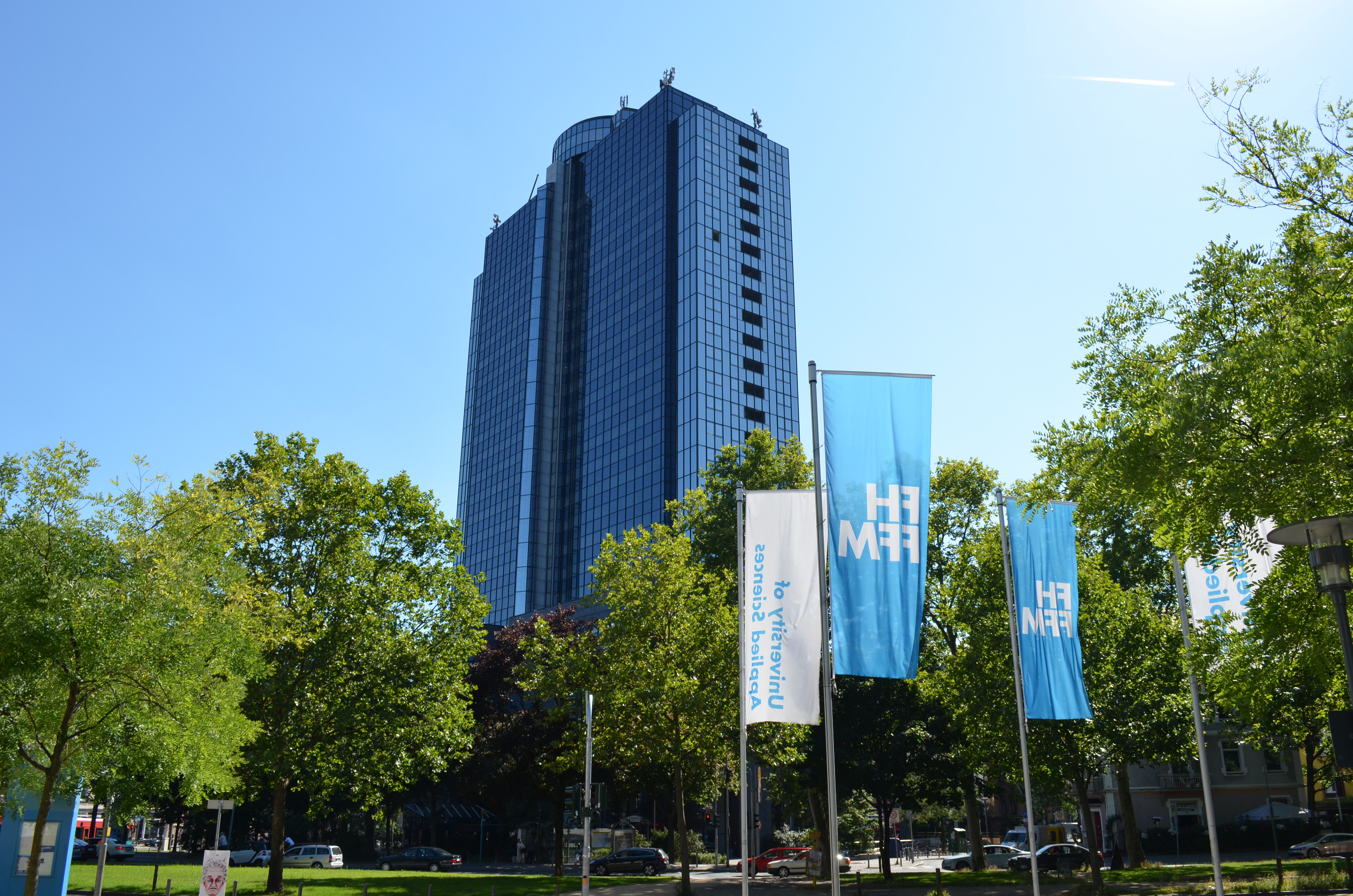 Fachhochschule Frankfurt am Main (FH FFM) - University of Applied Sciences: The BCN-Tower, the university has rented some floors here.